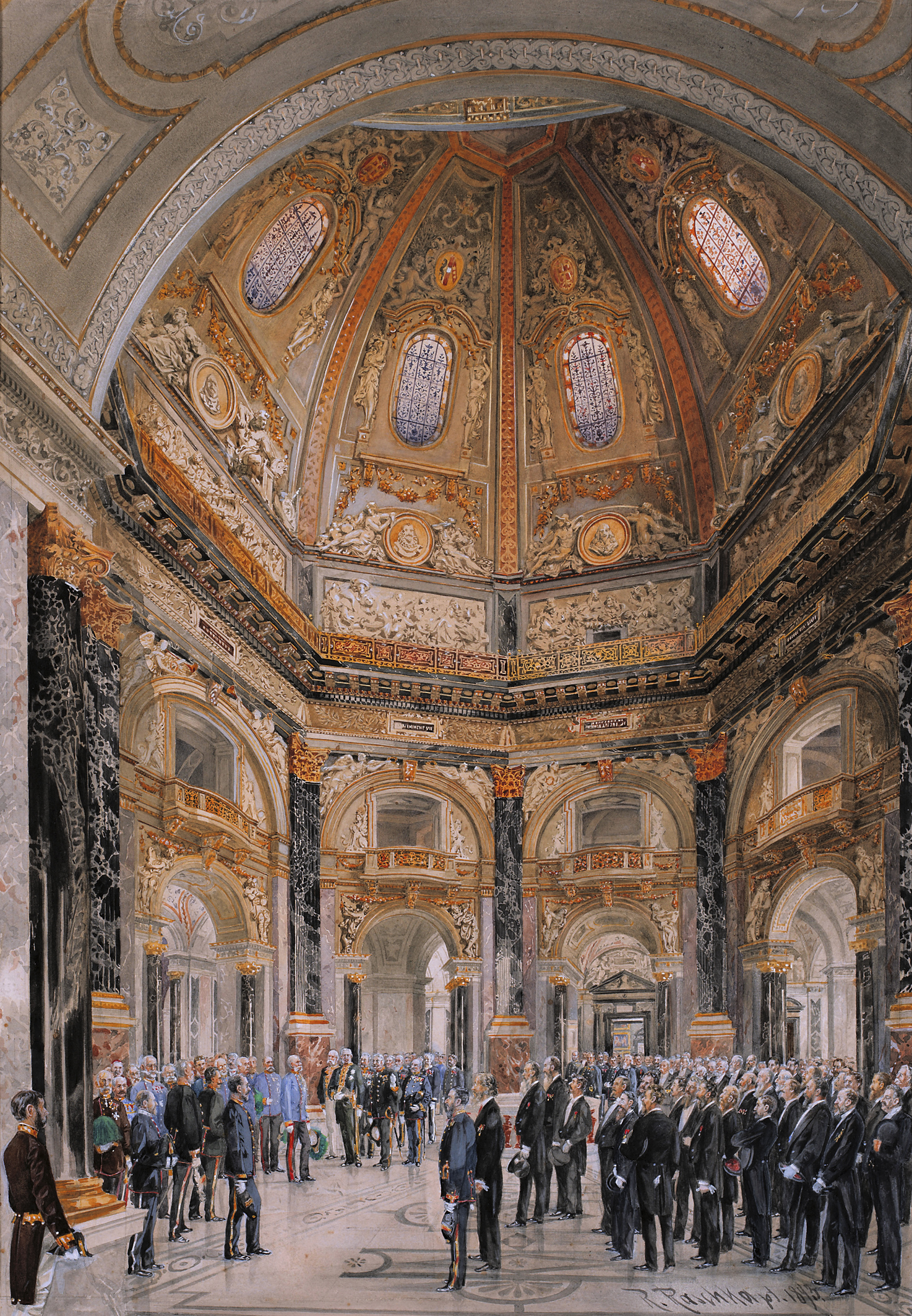 The opening of the Kunsthistorisches Museum by Emperor Franz Joseph I (17.10.1891) signed b.r.: R. Raschka pt. 1893